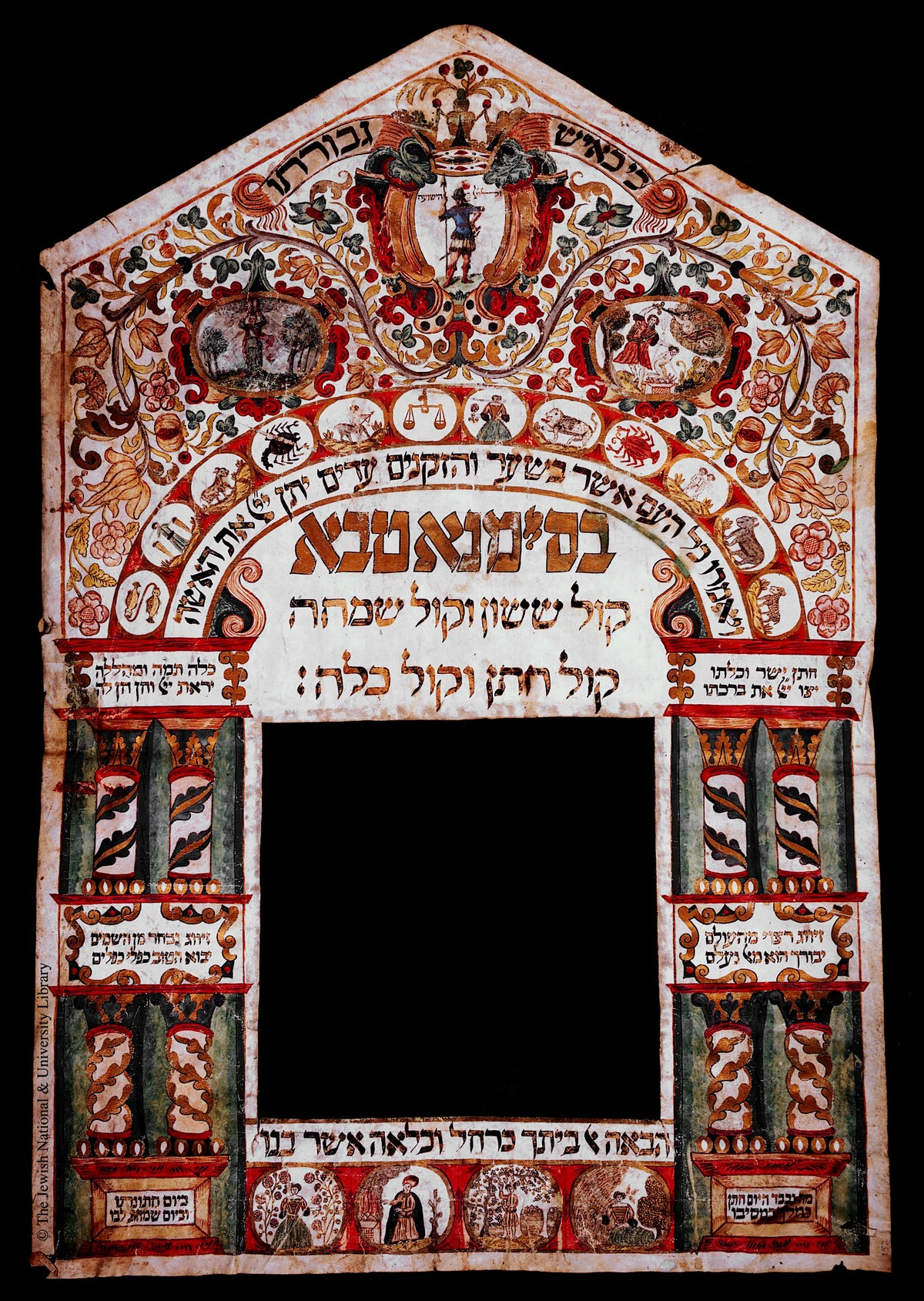 Ketuba from Italy